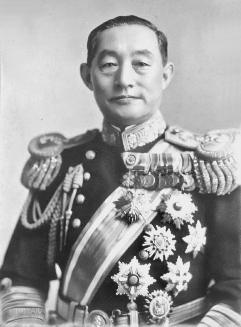 This is a photo of Admiral Mitsumasa Yonai (1880-1948)